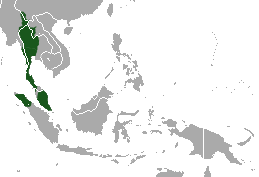 Lar Gibbon (Hylobates lar) range